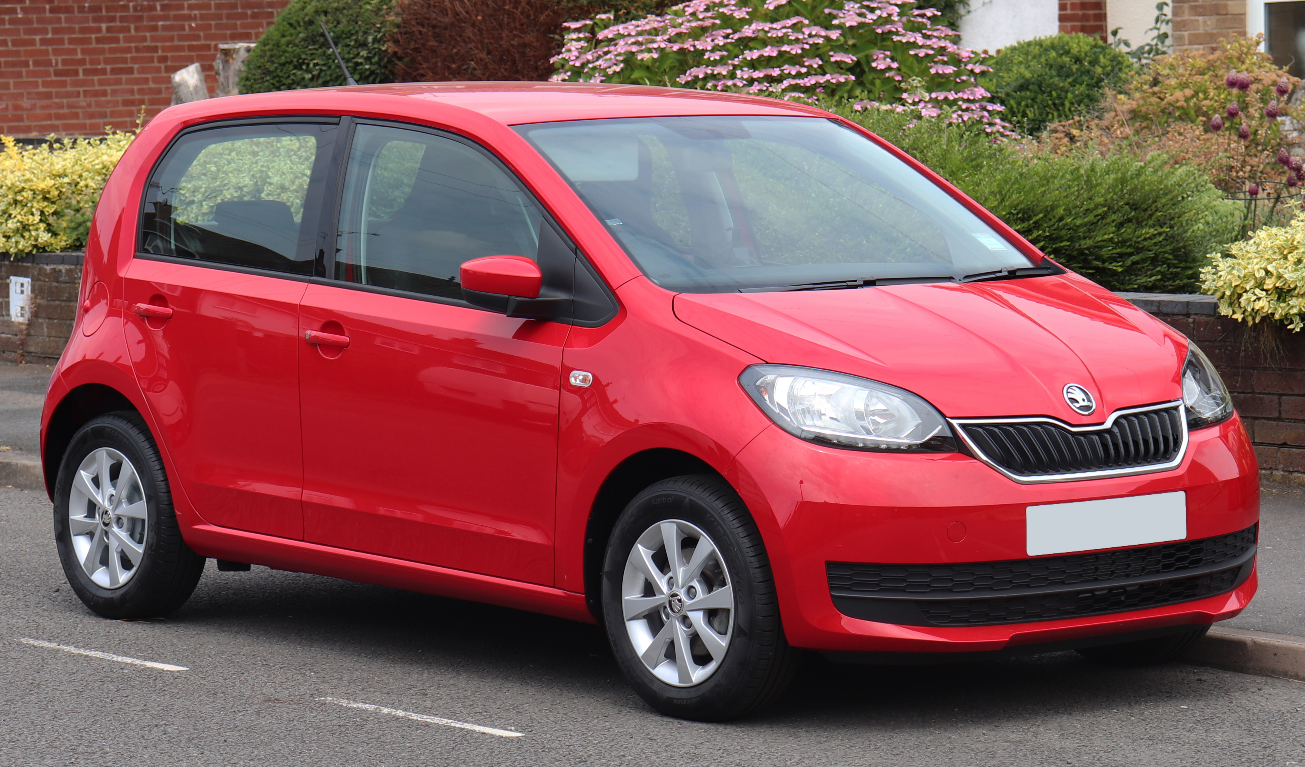 2018 Skoda Citigo SE MPi 1.0 Front Taken in Warwick